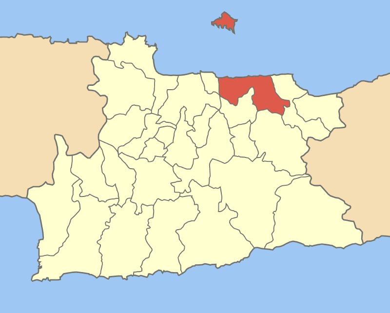 Locator map of Gouves municipality (Δήμος Γουβών) in Iraklio prefecture (Νομός Ηρακλείου) in Greece.